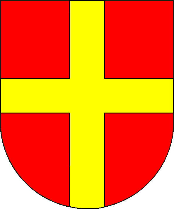 coats of arms of the prince-bishopof Paderborn (Gules, a cross Or); Wappen des Erzbistums Paderborn und des früheren Fürstbistums Paderborn (18. Jahrhundert). Auch als Wappen der Region Hochstift Paderborn genutzt